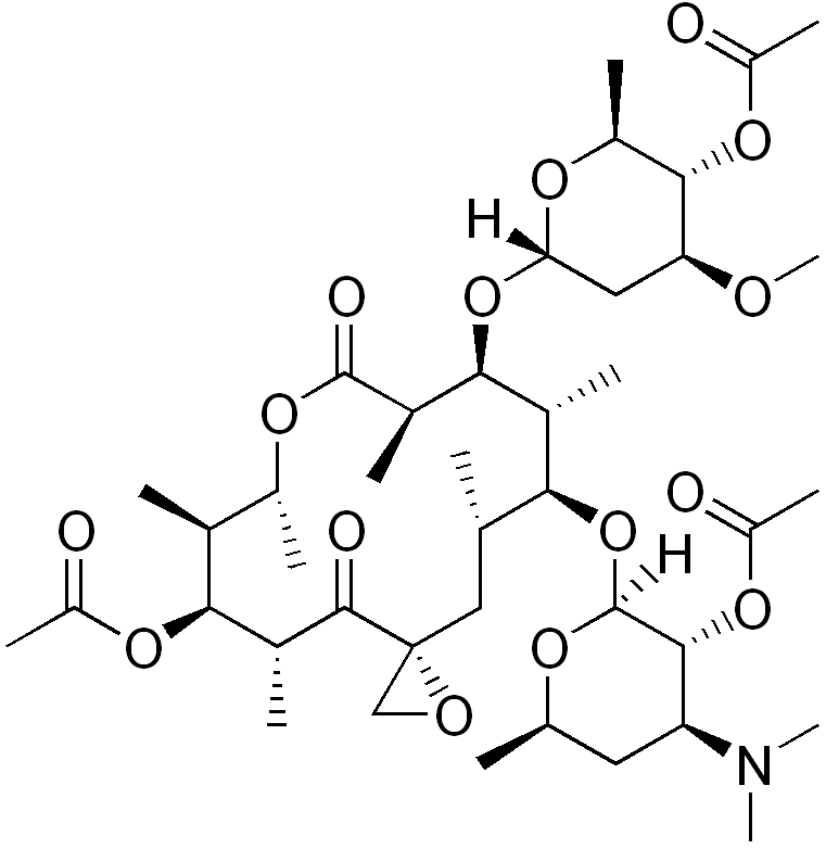 chemical structure of troleandomycin